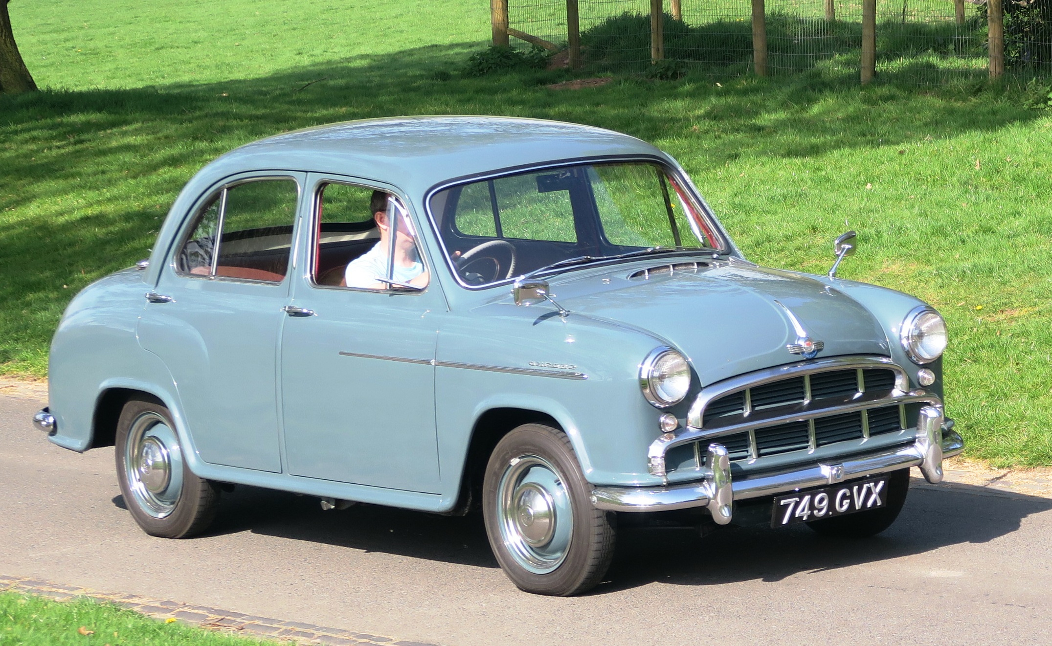 Morris Oxford (1956)